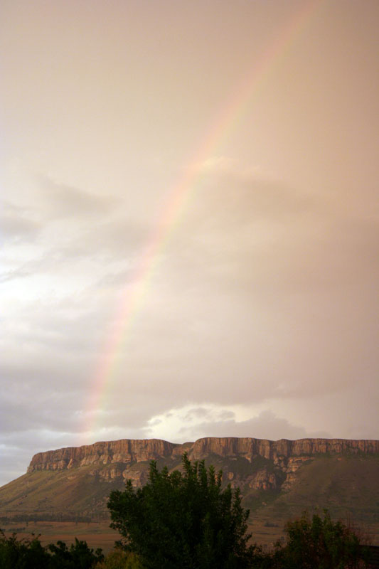 Platberg